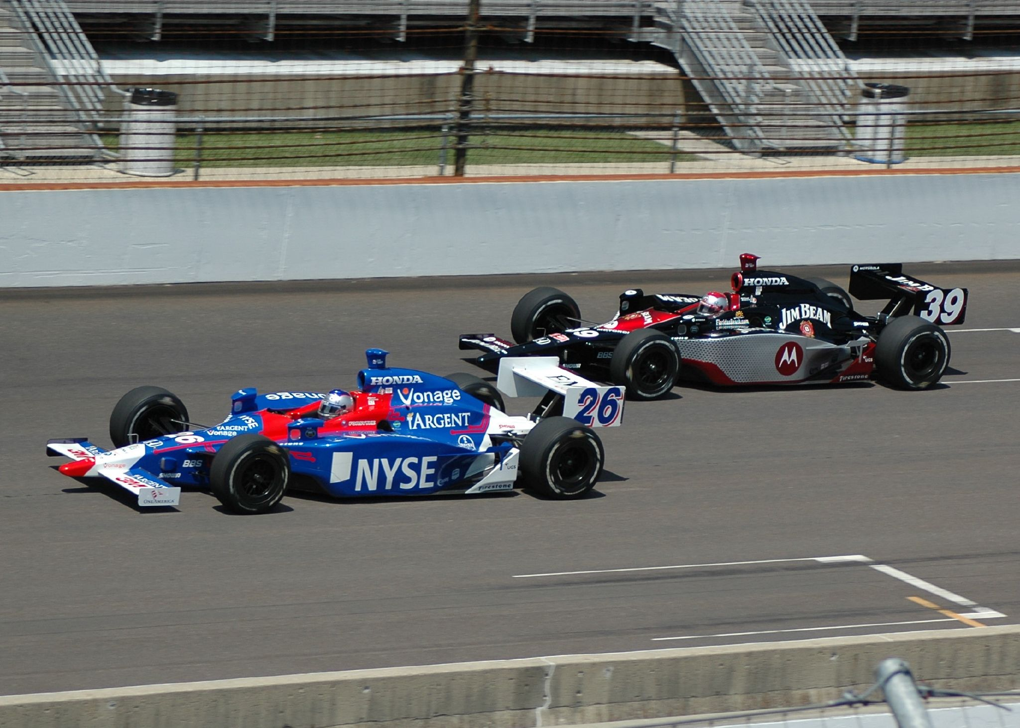 Marco Andretti (left #26) and his father Michael Andretti (right #39) practicing for the en:2007 Indianapolis 500